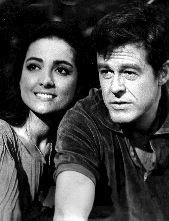 Photo of Kamala Devi and Robert Culp from the television program I Spy.